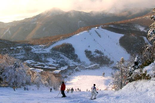 Ichinose Diamond Ski Area seen from Ichinose Family Ski Area.